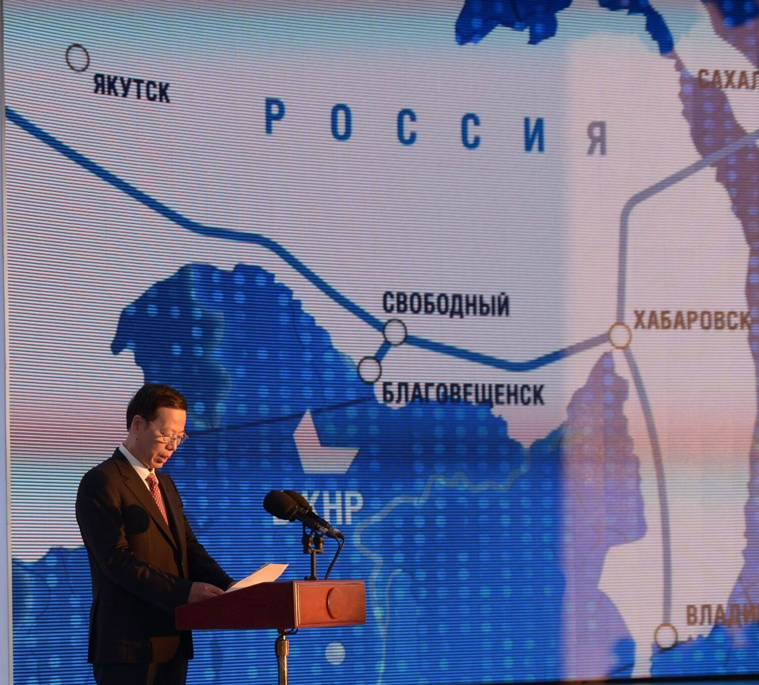 At the ceremony dedicated to the connection of the first link of the main gas pipeline "Siberia's Power"